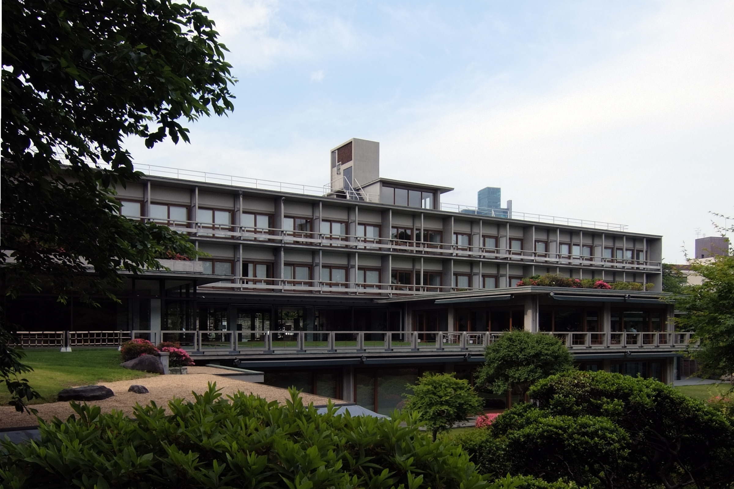 International House of Japan, at Minato-ku Tokyo Japan, design by Kunio Maekawa & Junzo Sakakura & Junzo Yoshimura in 1955.